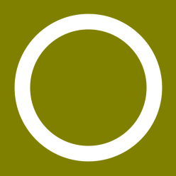 British 29th Infantry Brigade insignia